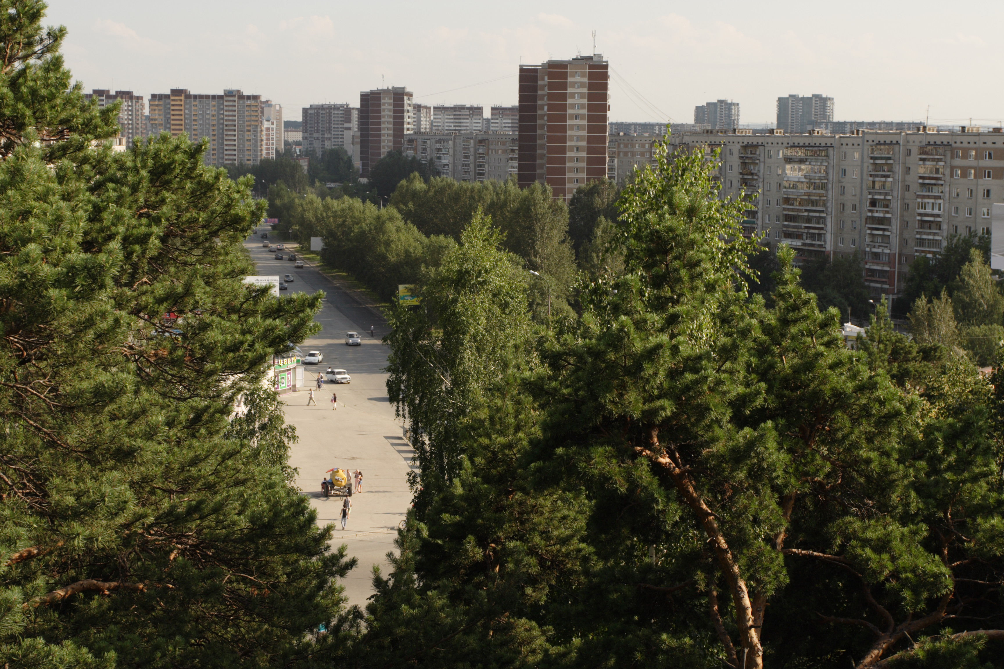 View from Kamennye palatki (Каменные палатки) on the Kirovsky district, Yekaterinburg, RussiaKirov from Kamennye Palatky